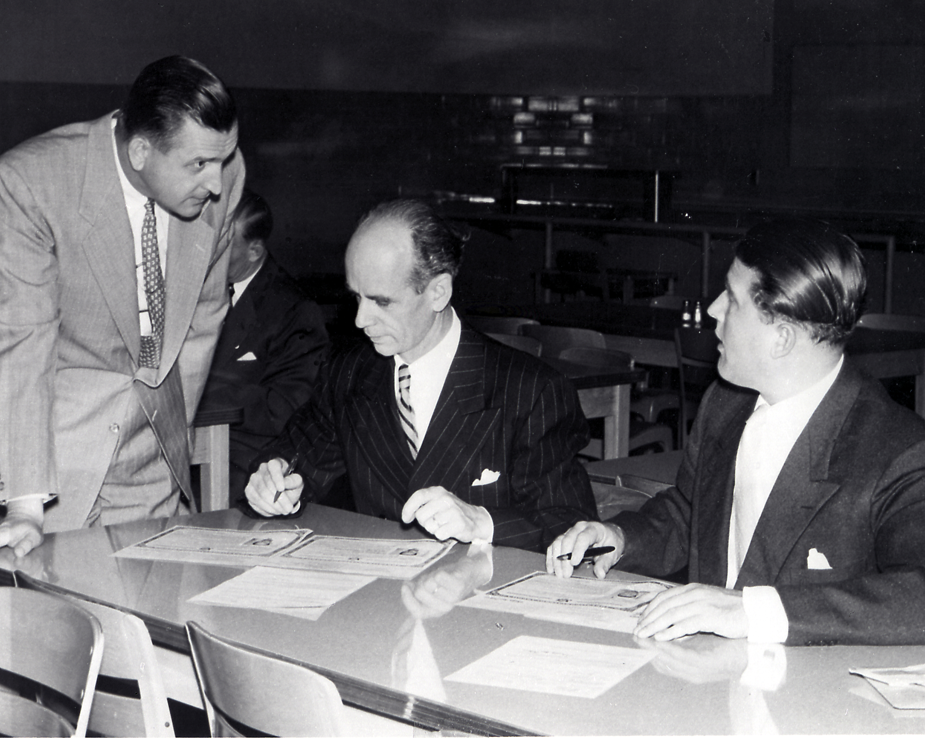 Dr. Wernher von Braun and Dr. Ernst Stuhlinger Sign Citizenship Certificates - The members of the Peenemuende team and their family members were awarded the United States citizenship on April 14, 1955. Pictured here is Dr. Ernst Stuhlinger (middle) and Dr. Wernher von Braun signing U.S. citizenship certificates. Martin Schilling is at left.